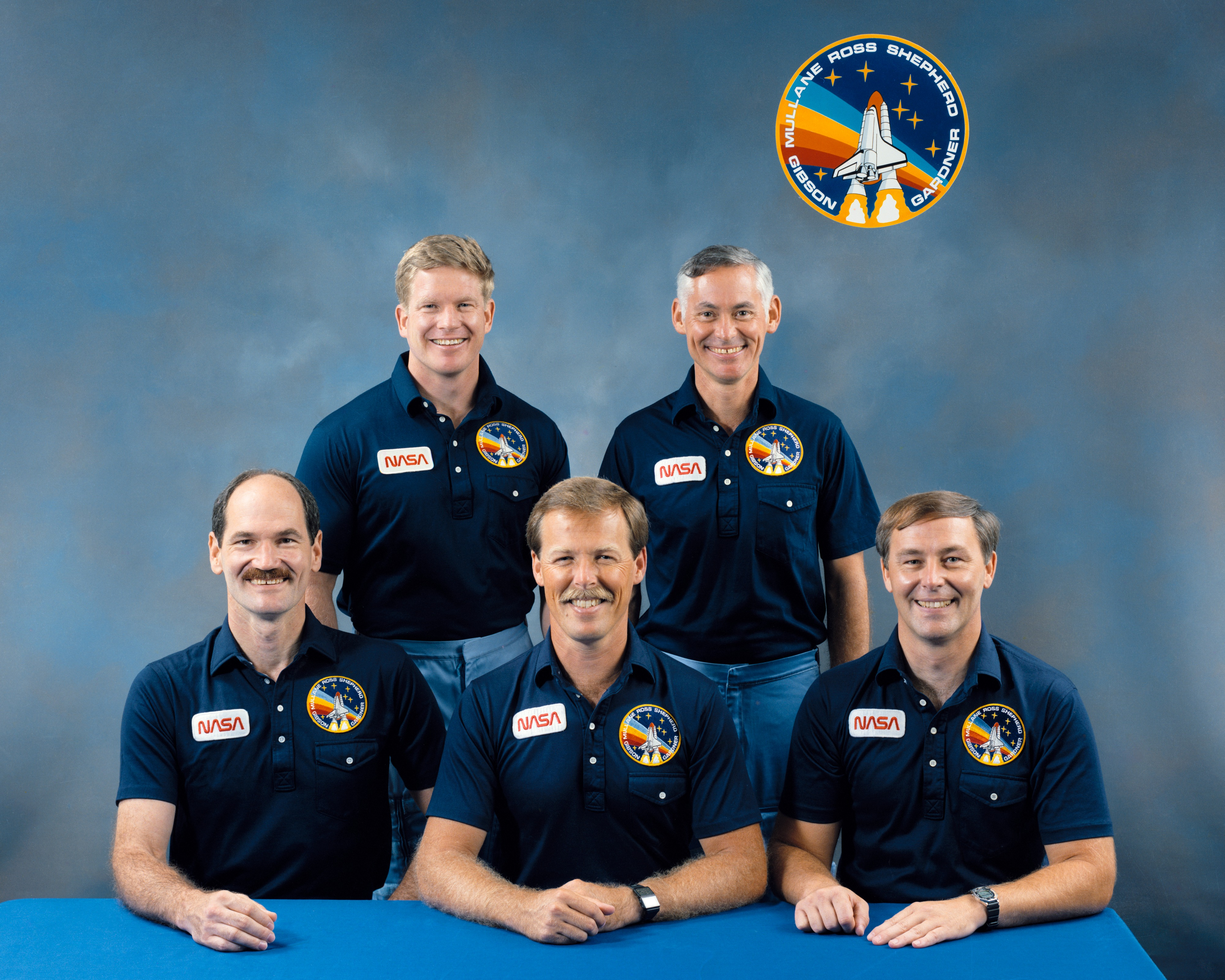 The STS-27 crew portrait features 5 astronauts. Seated, left to right, are Guy S. Gardner, pilot; Robert L. Gibson, commander and Jerry L. Ross, mission specialist. On the back row, left to right, are mission specialists William M. Shepherd and Richard M. Mullane. Launched aboard the Space Shuttle Atlantis on December 2, 1988 at 9:30:34 am (EST), the STS-27 mission was the third mission dedicated to the Department of Defense (DOD).